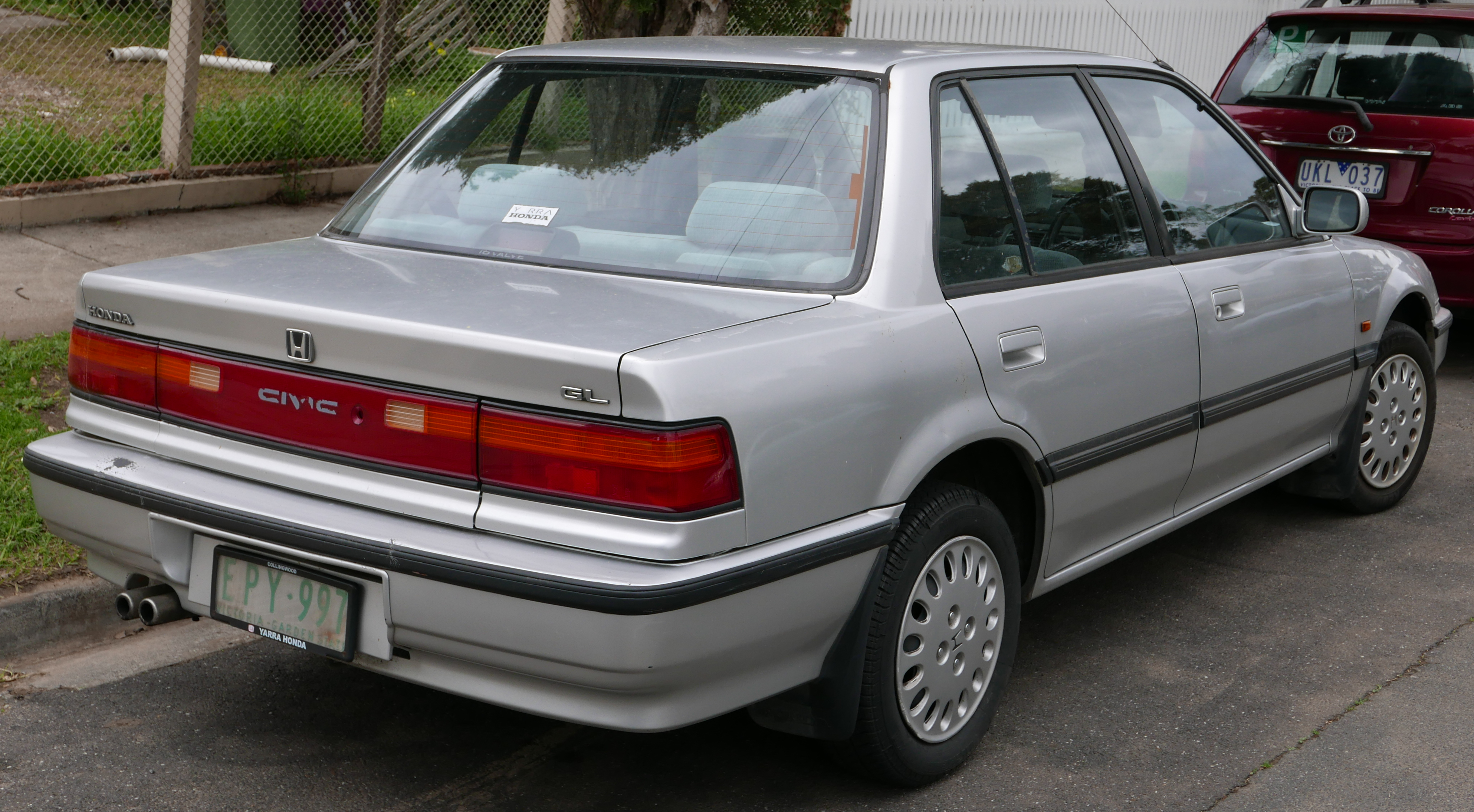 1991 Honda Civic (ED) GL sedan. Photographed in Northcote, Victoria, Australia. Vehicle registration enquiry results Jurisdiction Victoria Registration EPY997 Chassis code JHMED35300S302298 Engine code D15B41600927 Compliance date 1991-01 Year of manufacture 1991